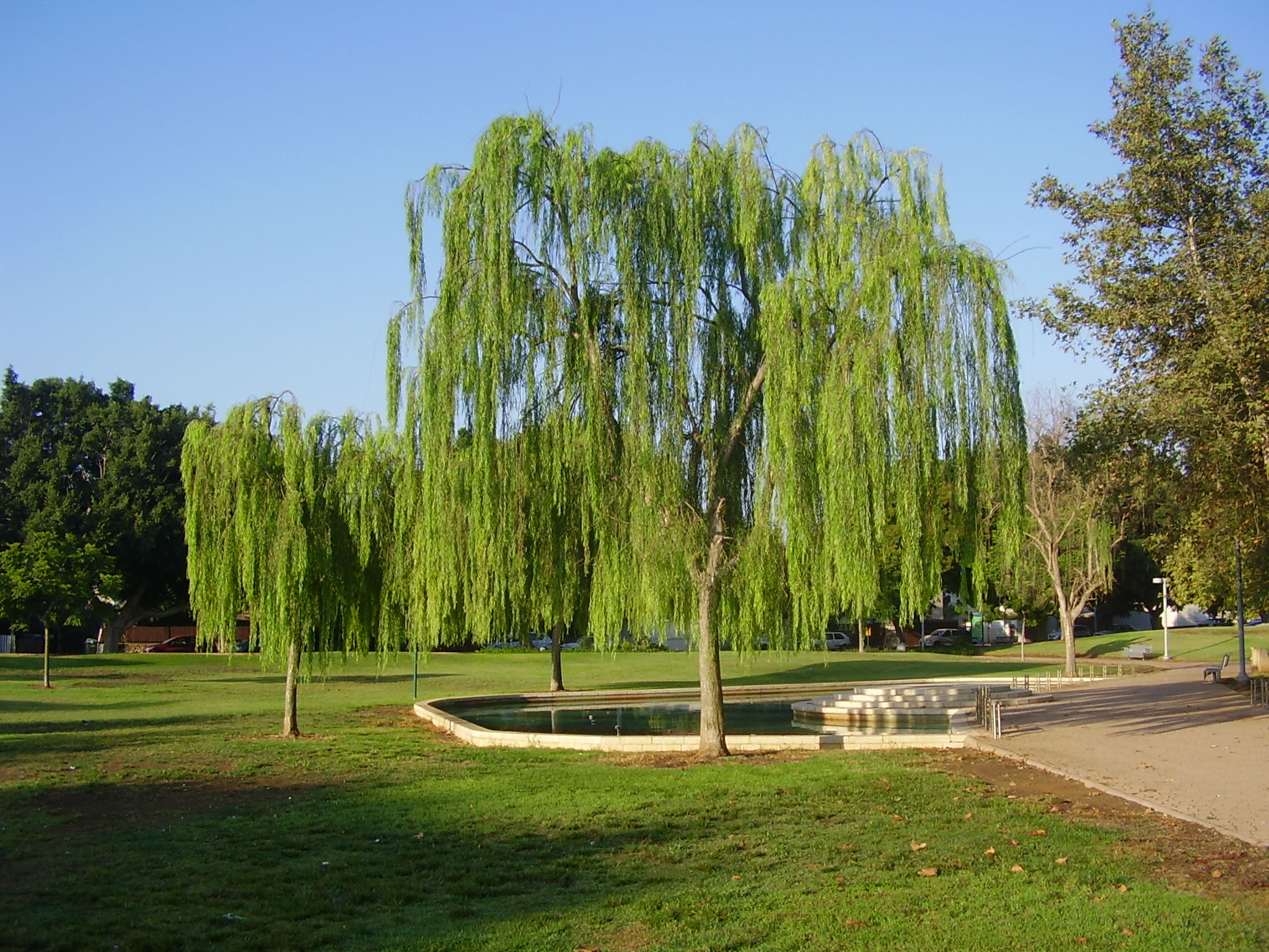 Uri Gordon Garden-Willow